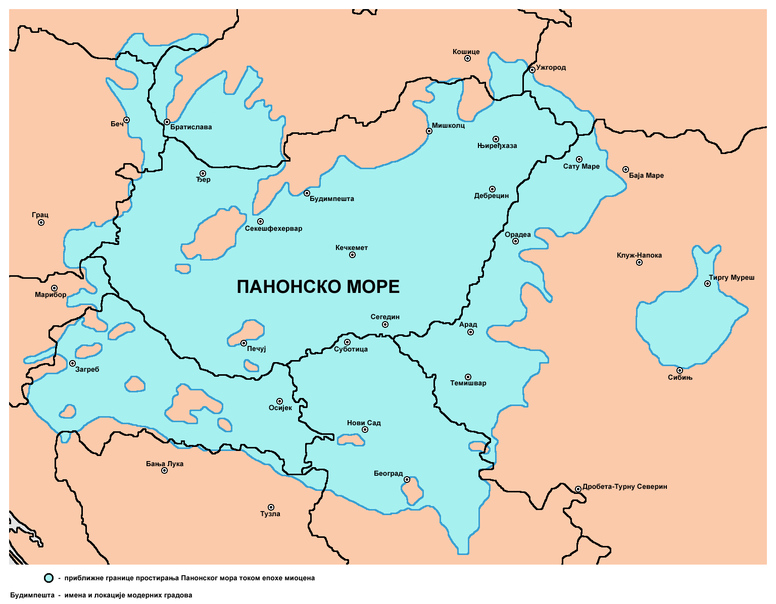 Approximate extent of Pannonian Sea during the Miocene Epoch.